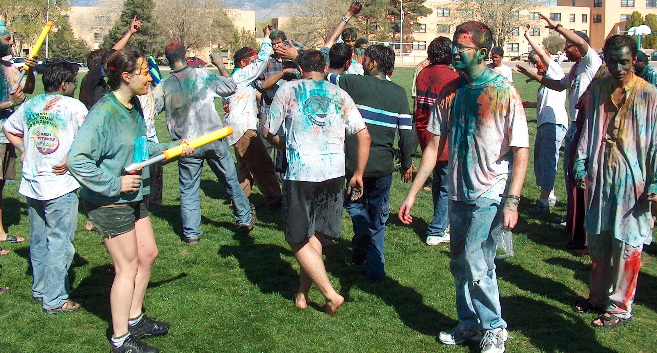 Author : Midhun Kumar Allu This photograph was taken by me in the Lower Johnsons Field of the University of New Mexico when holi was celebrated by the India Student Association. This was a public event.